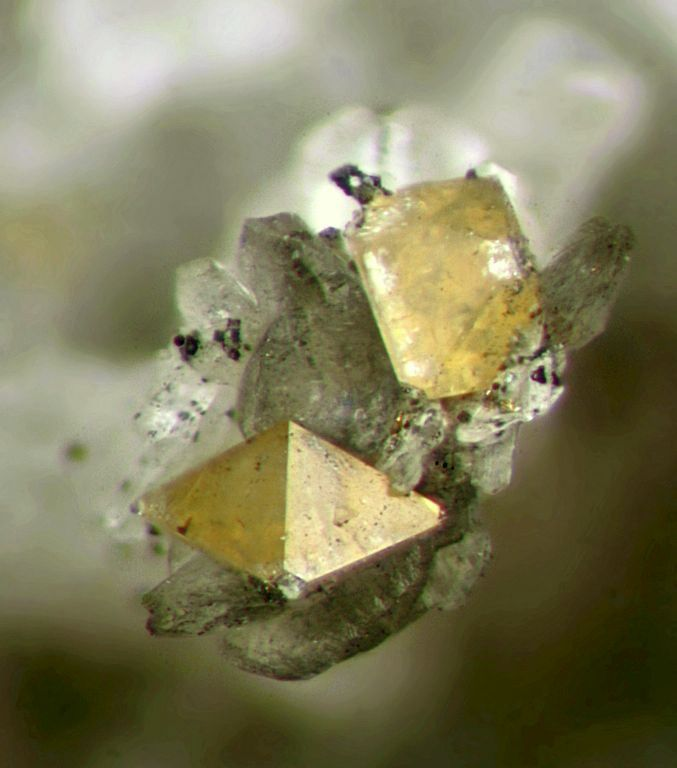 Zircon (FOV 1.3 x 1.5 mm) Locality: Poudrette quarry (Demix quarry; Uni-Mix quarry; Desourdy quarry; Carrière Mont Saint-Hilaire), Mont Saint-Hilaire, Rouville RCM, Montérégie, Québec, Canada Original description: Ex Ron Waddell (Found April 1990) MOB coll. Tiny yellow di-pyramids to ~ ⅓ mm on edge. Ron’s label is very excited about these but such xls show up from time to time in great abundance.